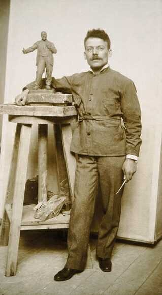 Eduard "Ede" Telcs was a Hungarian sculptor (1872 – 1948)